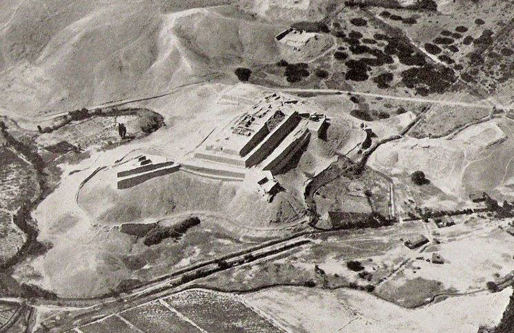 Paramonga fortress in Peru aerial photo.